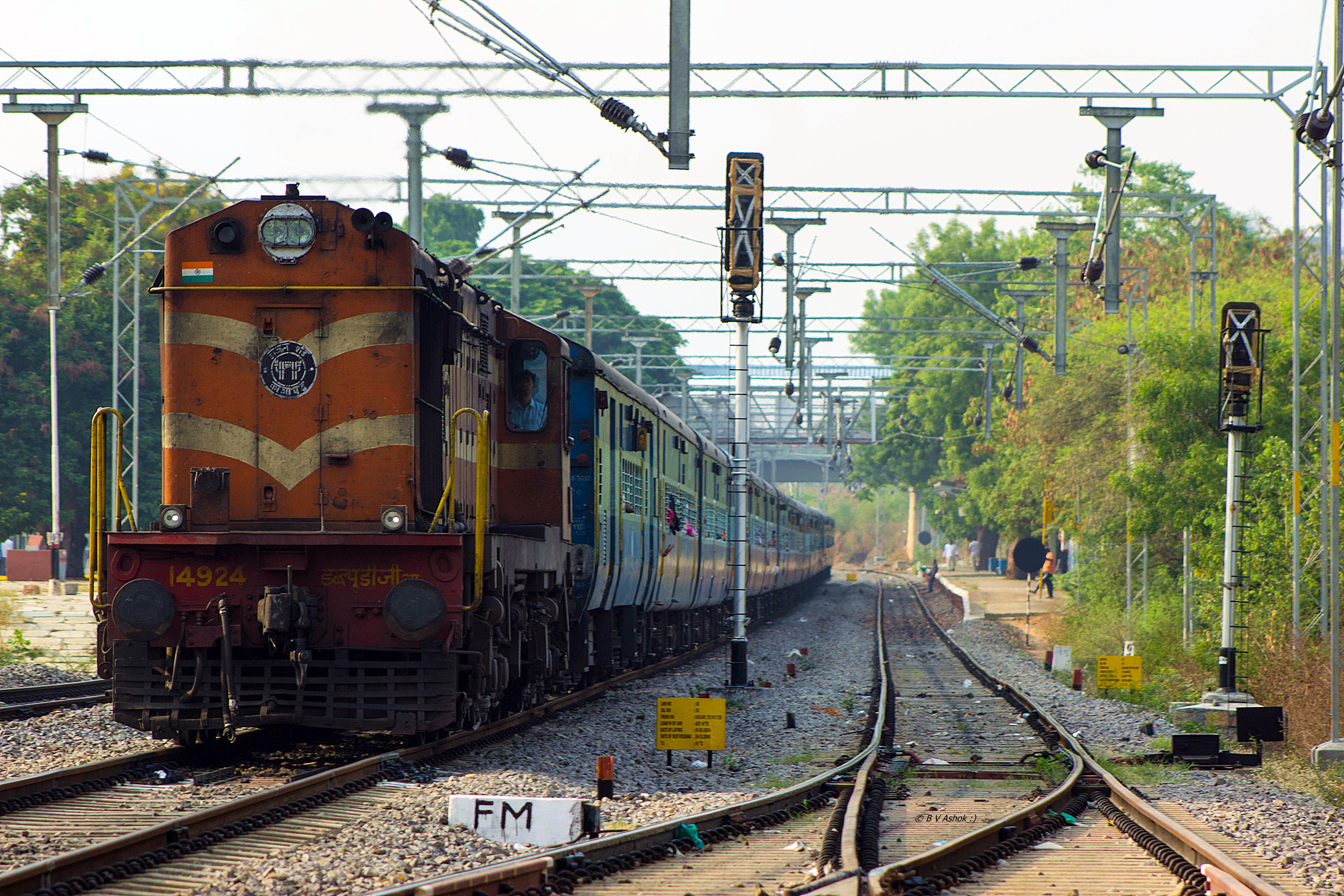 KZJ WDG-3A 14924 cruising through on mainline of Cavalry Barracks with 17641 Kacheguda - Narkher Intercity Express....